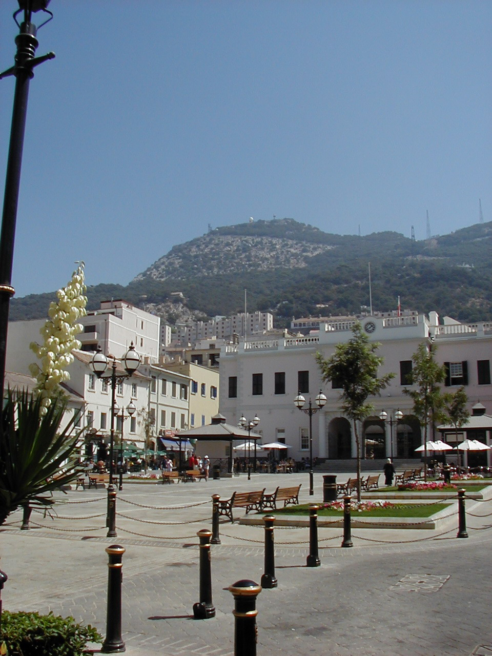 View of John Mackintosh Square, in Gibraltar. The building of the Gibraltar Parliament on the square opposite side.